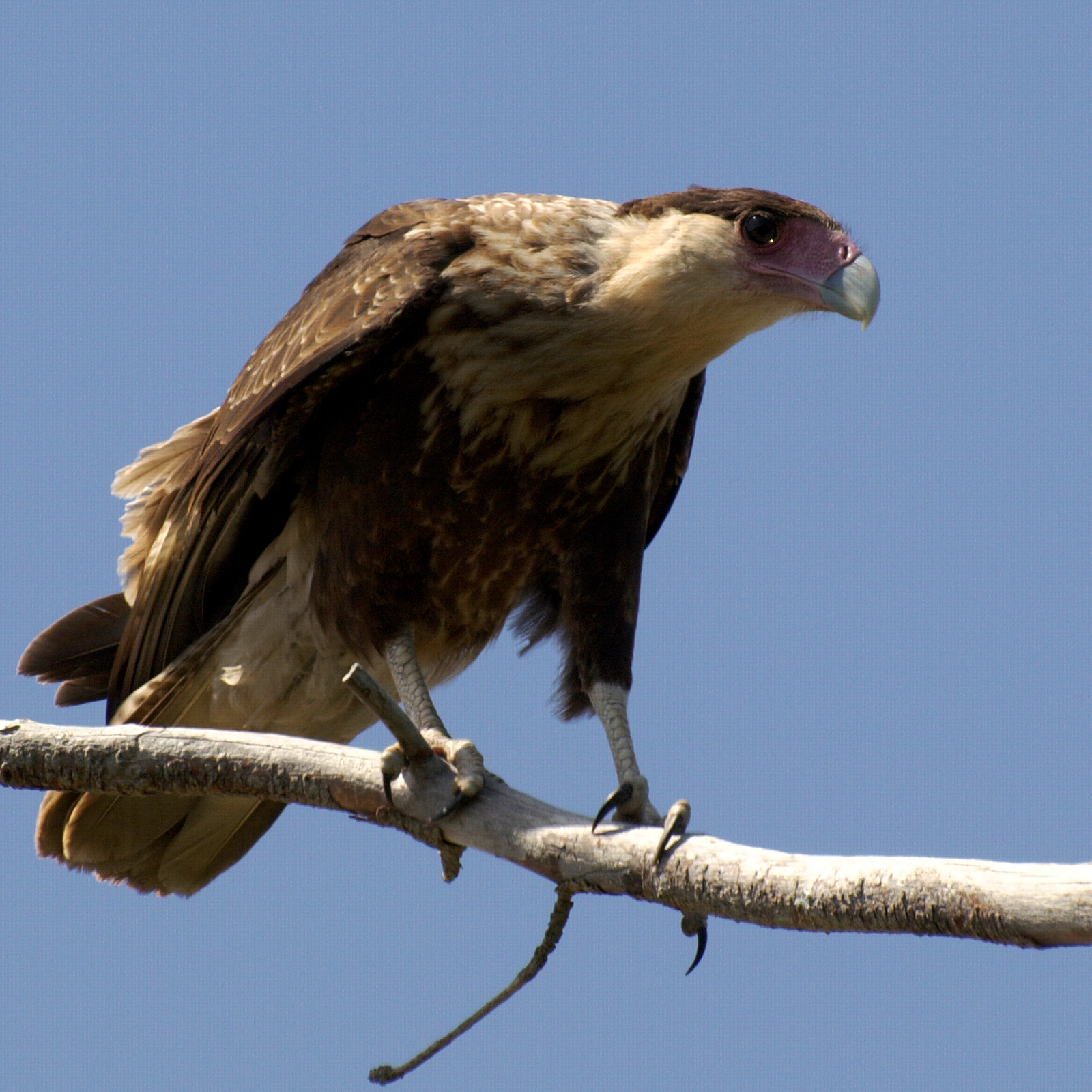 A juvenile Crested Caracara surveying the surroundings in Texas, USA.